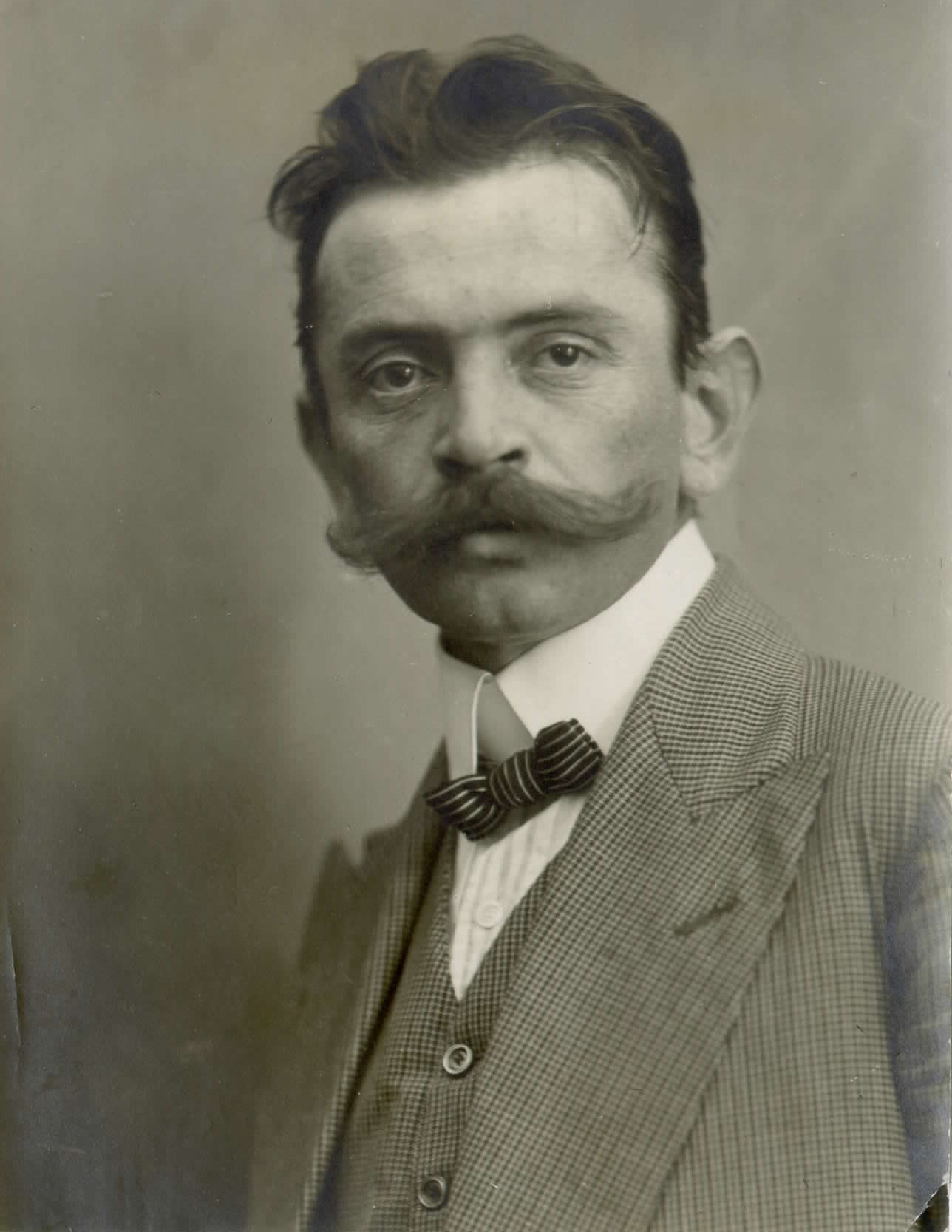 Ivan Cankar (1876-1918), Slovene writer, playwright, essayist, poet and political activist